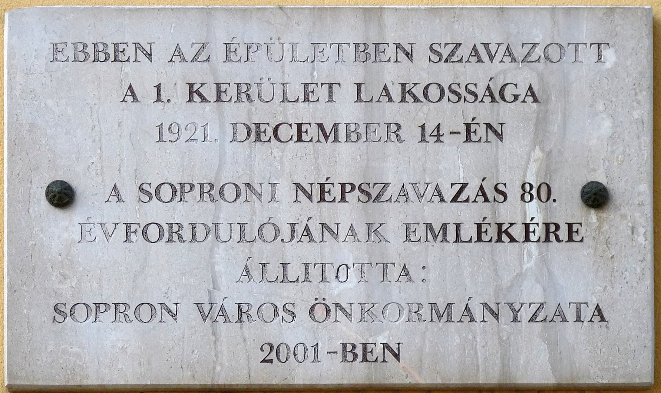 Plaque commemorating the 80th anniversary of the Sopron plebiscit. It is affixed to the front of the building where the residents of the 1st electoral district went to the polls December 14, 1921. (Sopron, Várkerület Nr 116)